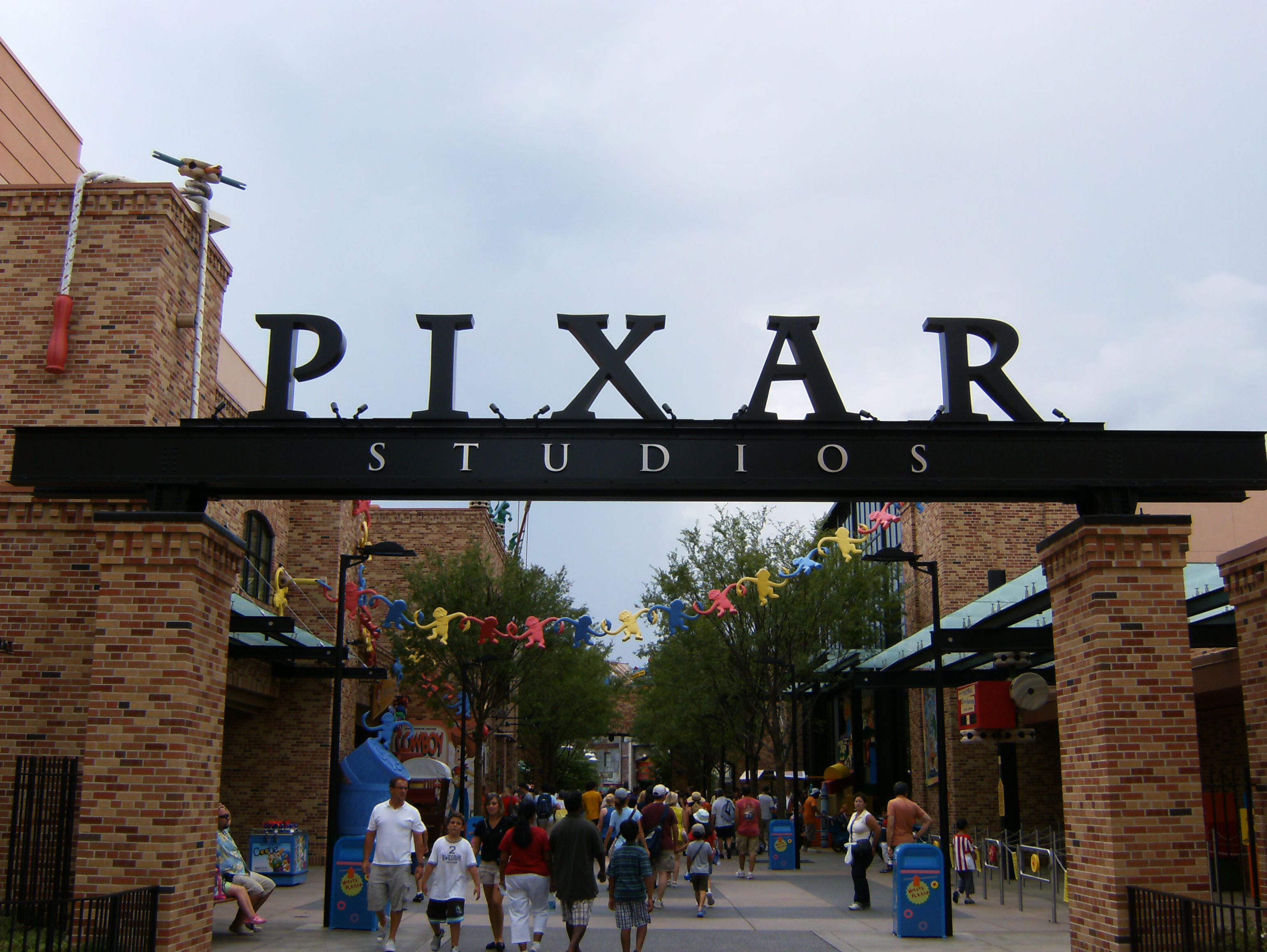 Picture of the entrance to Pixar Place, at Disney's Hollywood Studios